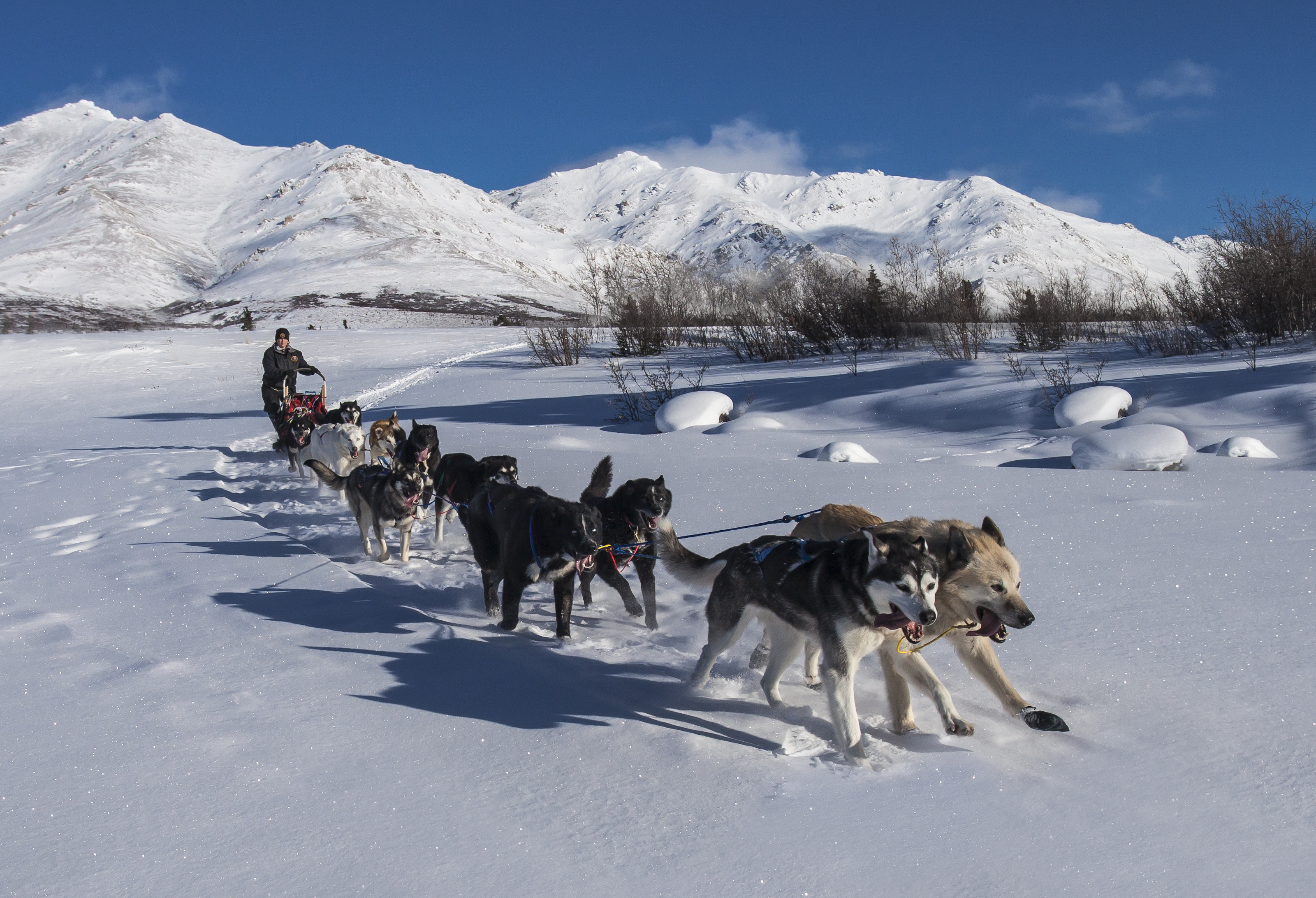 Corrie Mile 9 Landscape - Jacob W. Frank